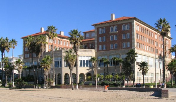 Casa Del Mar Hotel — on the beach in Santa Monica, Southern California. Built in a Renaissance Revival-Mediterranean Revival style in 1926 as an elite beach club, now a hotel on the National Register of Historic Places in Los Angeles County.